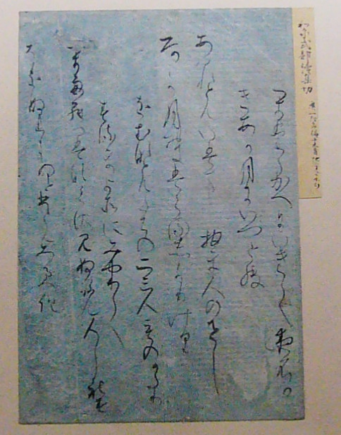 A page of Illuminated Manuscpt of _2nd_collected_works_of Izumi Shikibu (11th century lady poet, Japan), ink on decorated paper,12th century, Japan. Calliraphy Tokyo National Museum, Tokyo, Japan